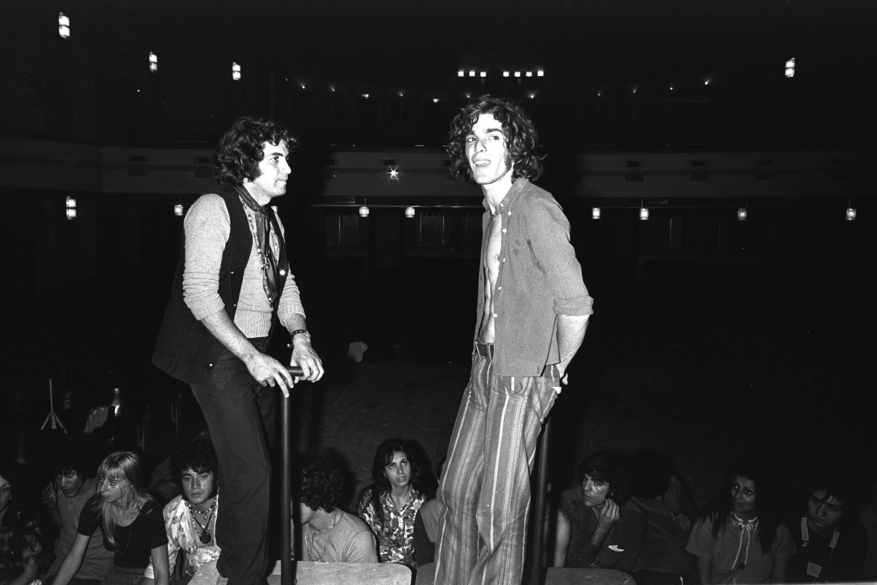 AVIV AVIVI (R) AND YOSSI ALFY, THE STARS OF - KFOTZ - DURING A REHEARSAL. אביב אביבי (מימין) ויוסי אלפי, כוכבי ההצגה - קפוץ - במהלך חזרה Photo: Moshe Milner (1946–) Alternative names Miylner, Moše; Milner, Mosheh; Moshé Milner; Milner, M.; Mîlner, Moše; Miylner, MošehDescriptionIsraeli photographerצלם ישראליDate of birth 1946 Location of birth Germany Authority control : Q28750411 VIAF: 100999744 ISNI: 0000 0001 0804 0507 LCCN: n82072104 GND: 115699732 BNF: 15548788n WorldCat creator QS:P170,Q28750411 , 11/10/1970